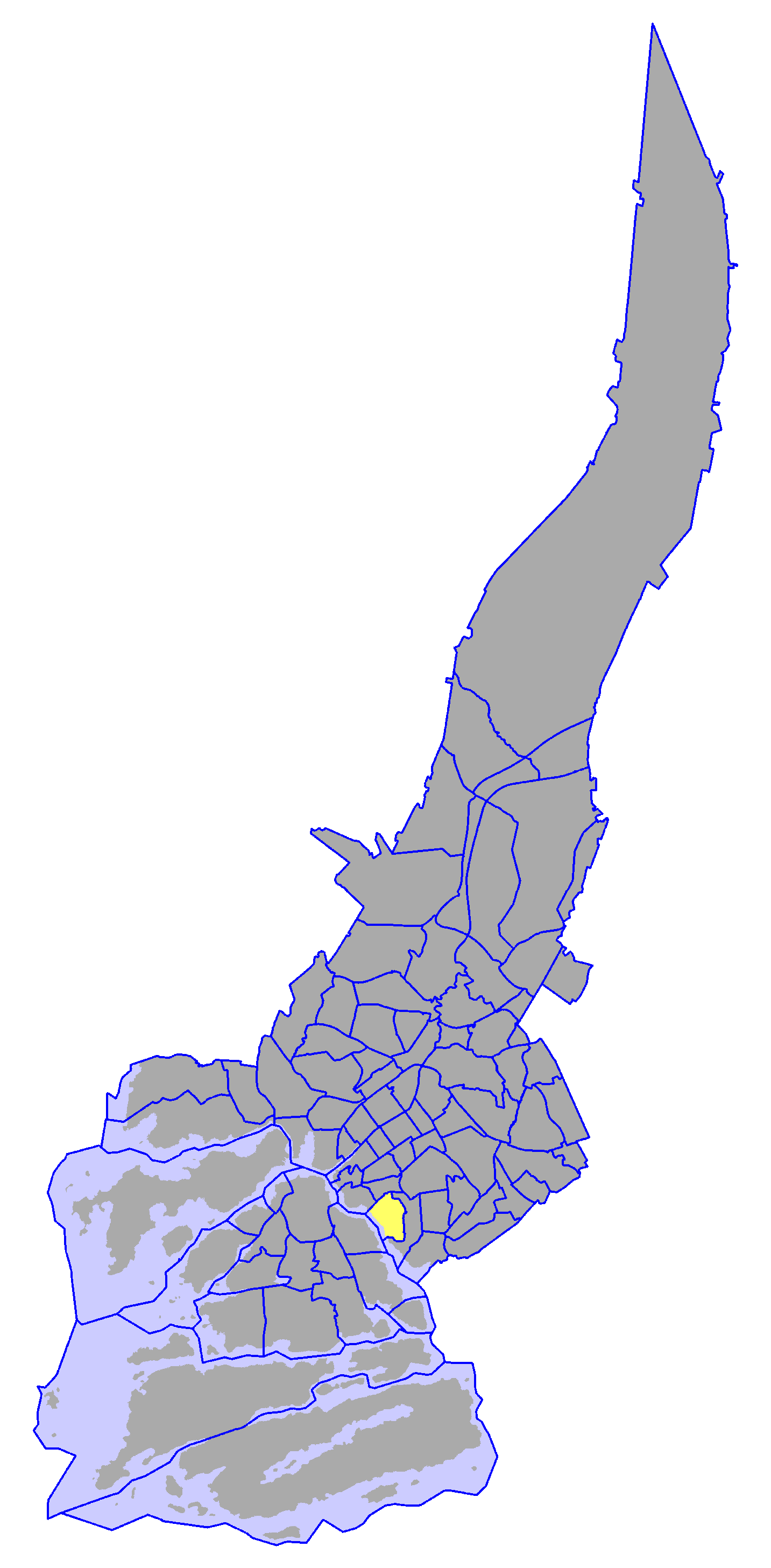 District of Uittamo, in Turku